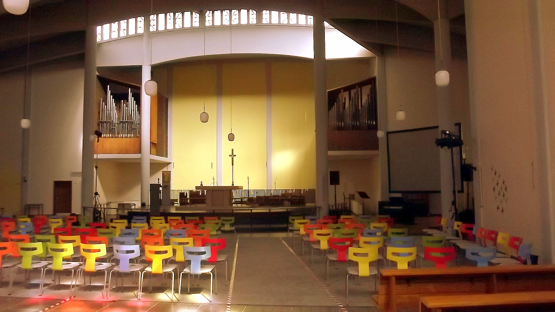 Interior of the roman catholic St.-Elisabeth's-church in Saarbrücken, Saarland, Germany